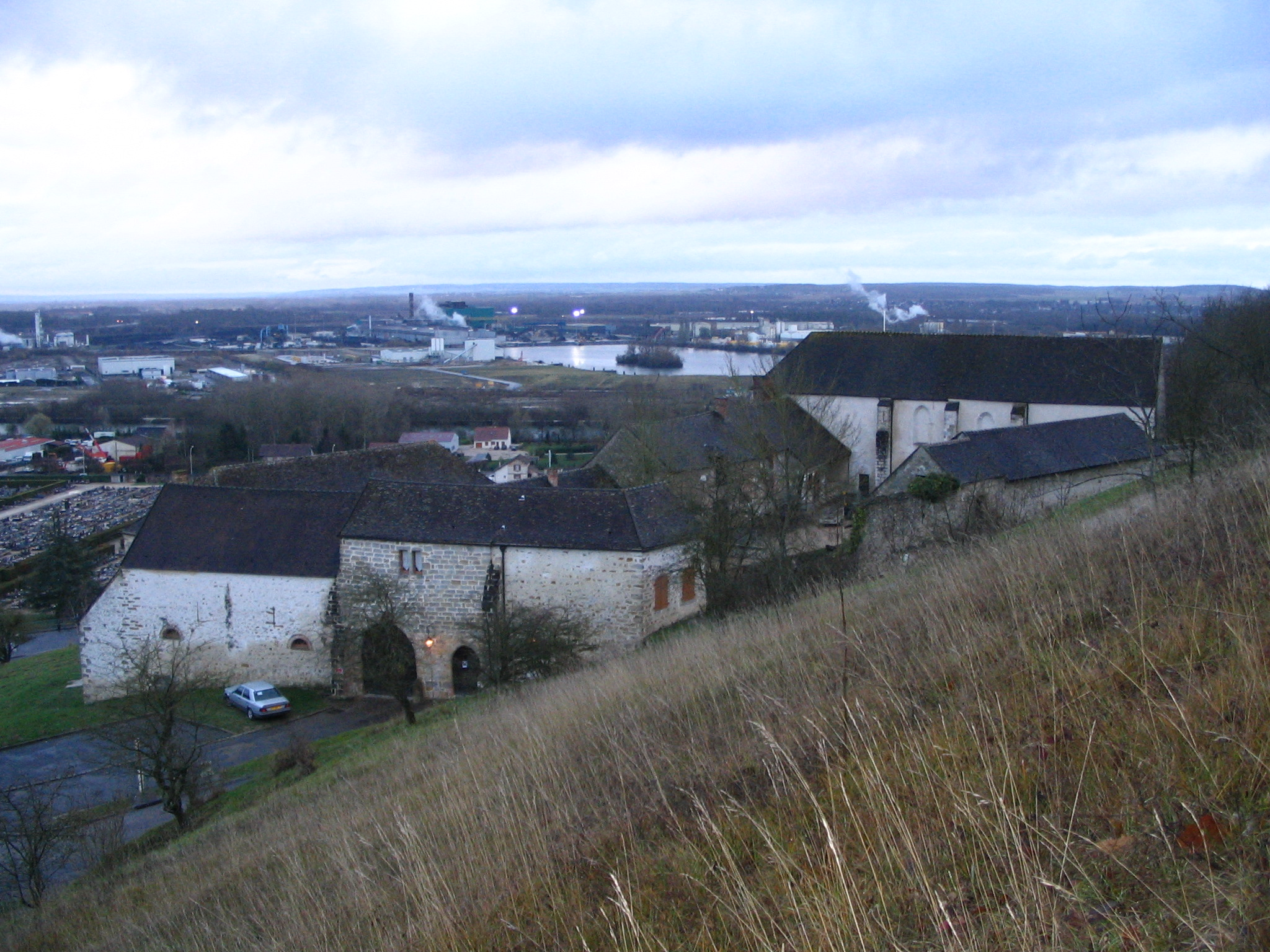 Prieuré Saint-Martin, in Montereau-Fault-Yonne, Seine-et-Marne, France.